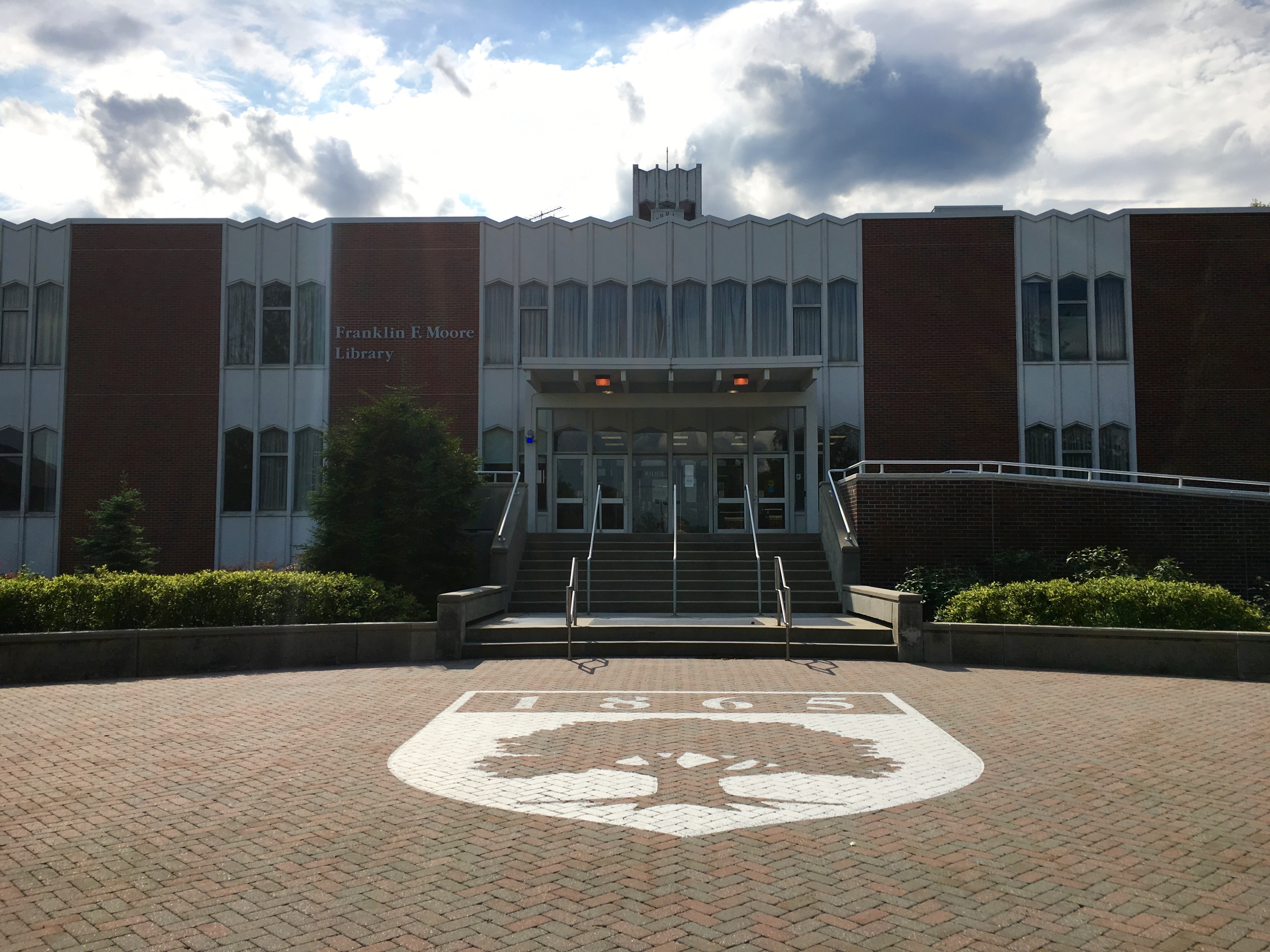 The Franklin F. Moore Library at Rider University